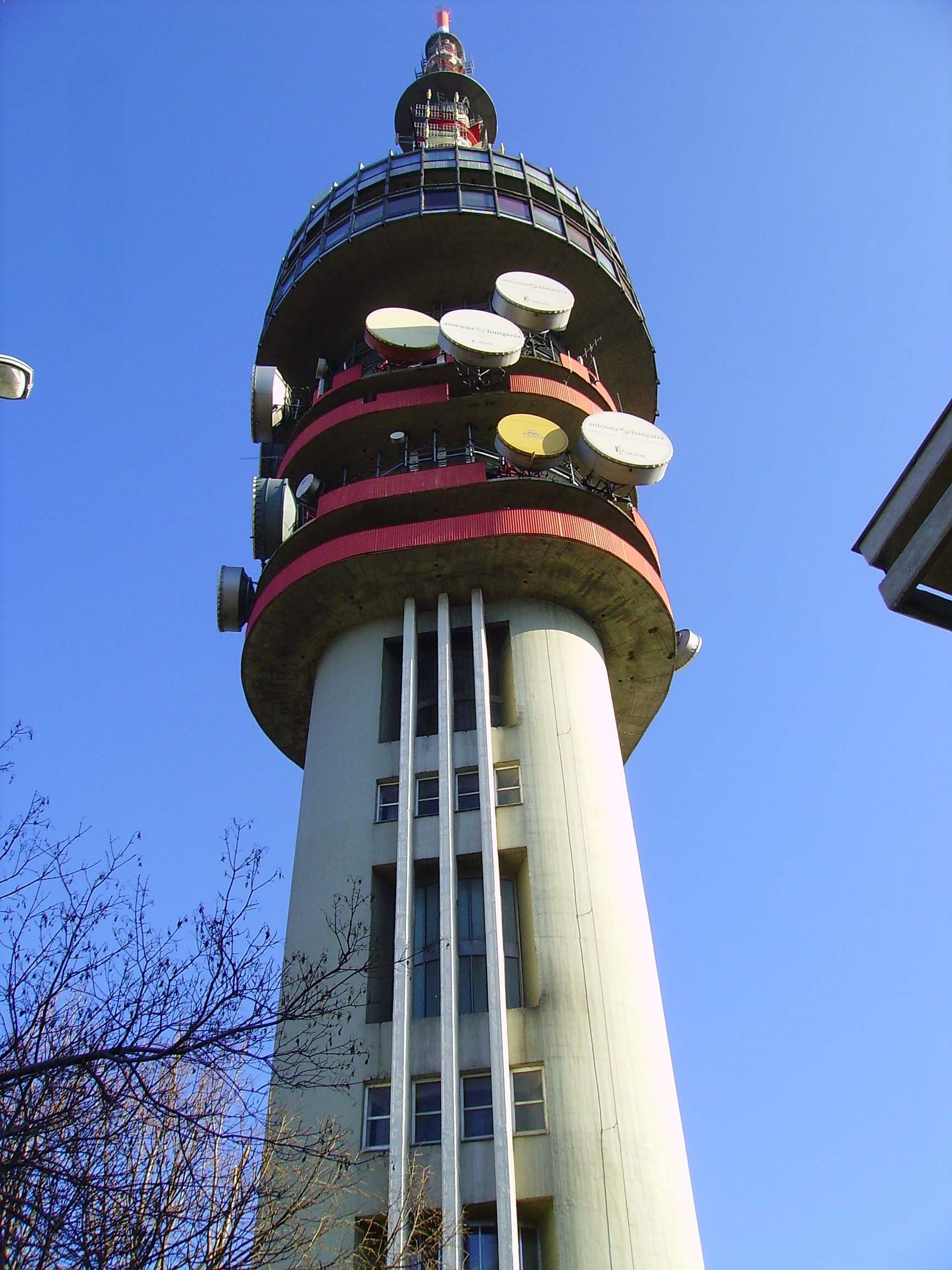 TV tower in Pécs, Hungary